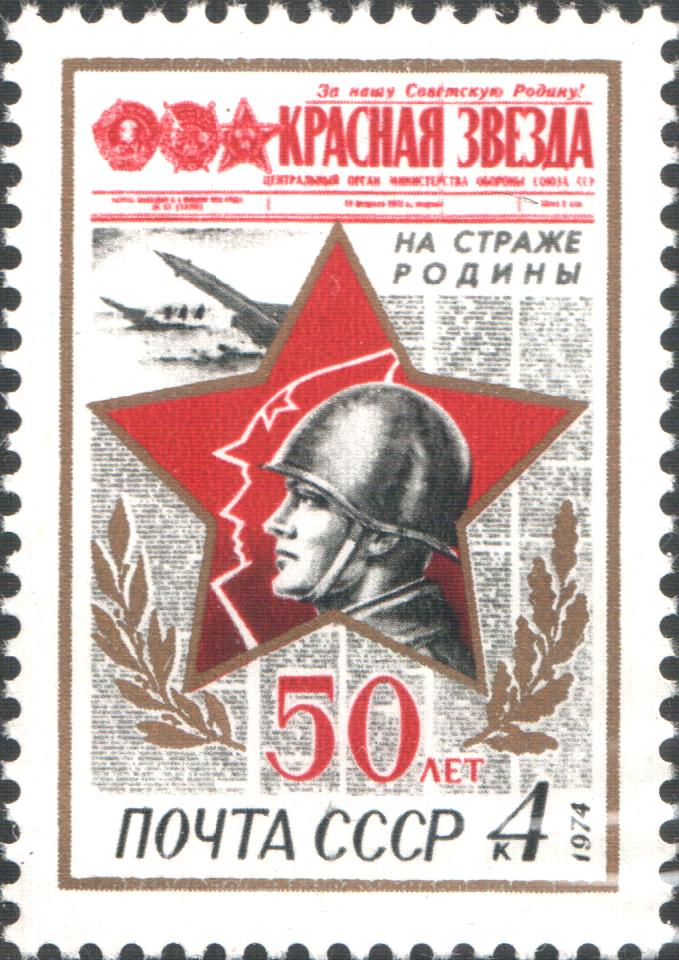 USSR stamp